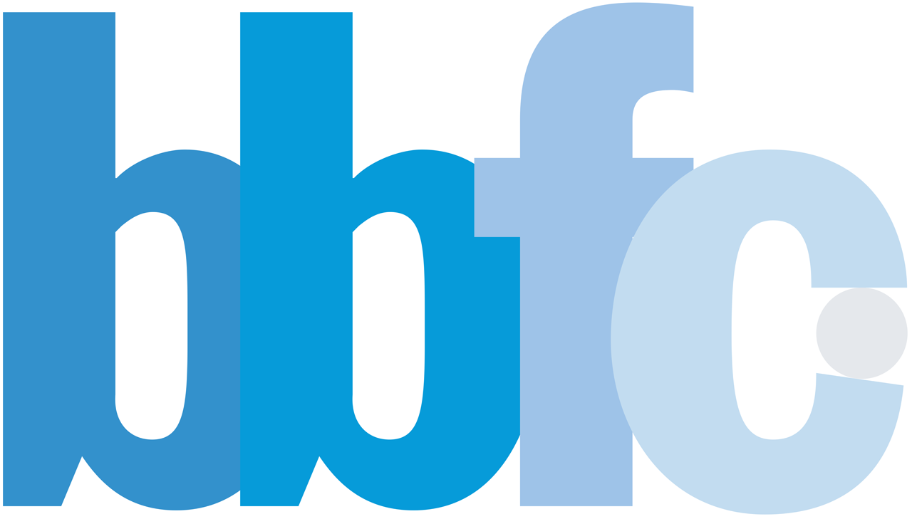 British Board of Film Classification logo